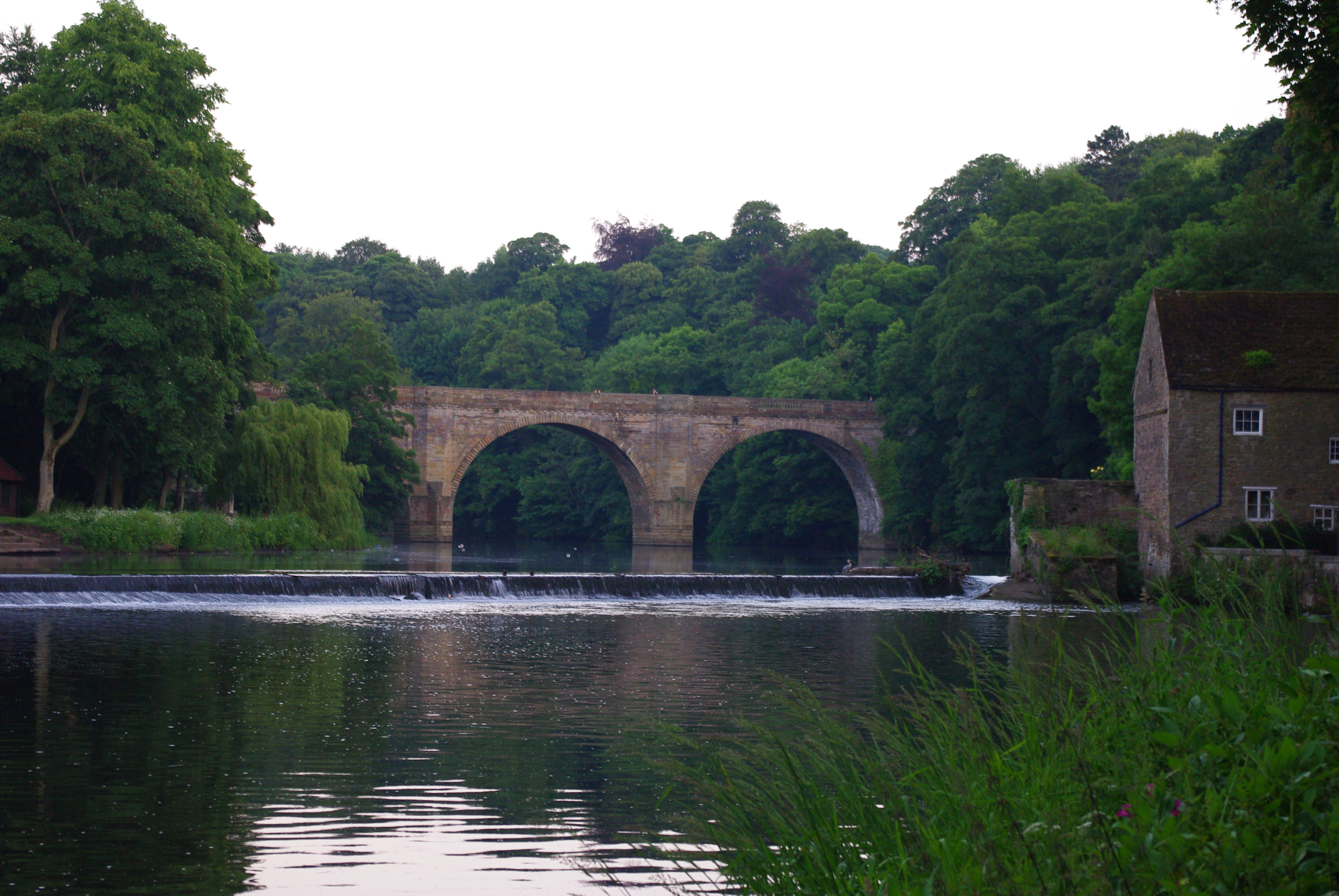 A view of Prebends Bridge and the weir next to the Old Fulling Mill in Durham.